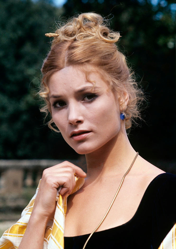 Swedish actress Janet Agren wearing the stage costume used in the TV series L'amaro caso della baronessa di Carini. Italy, 1975.